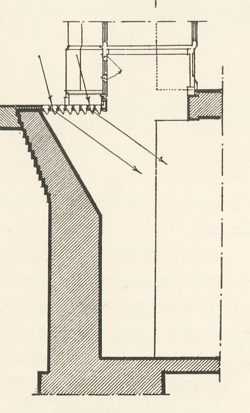 this is a cutout from Construction to bring light in a cellar with prismatic glass tiles.